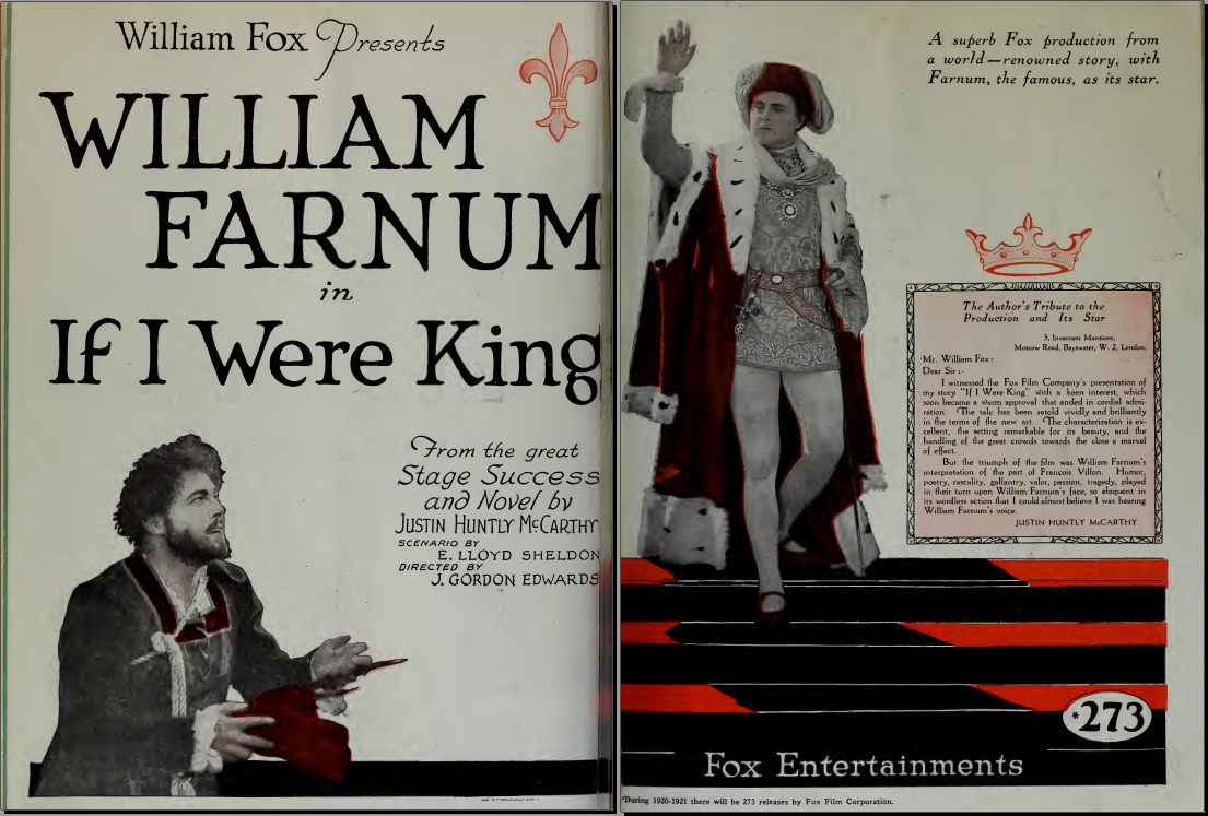 Advertisement with William Farnum for the film If I Were King (1920), directed by J. Gordon Edwards.